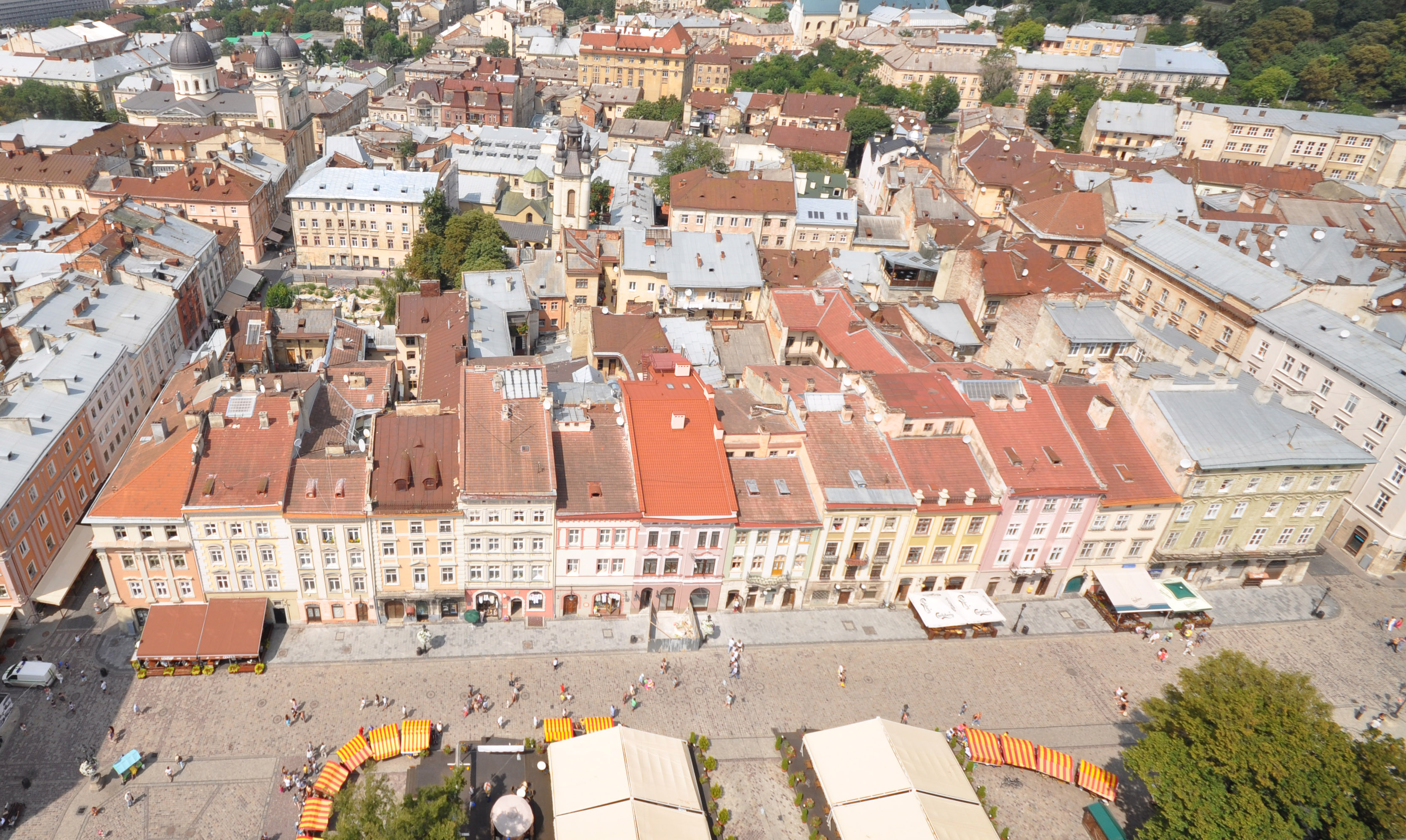 View of the northern side of the Lviv Market Square from the Clock Tower's Town Hall (cropped)